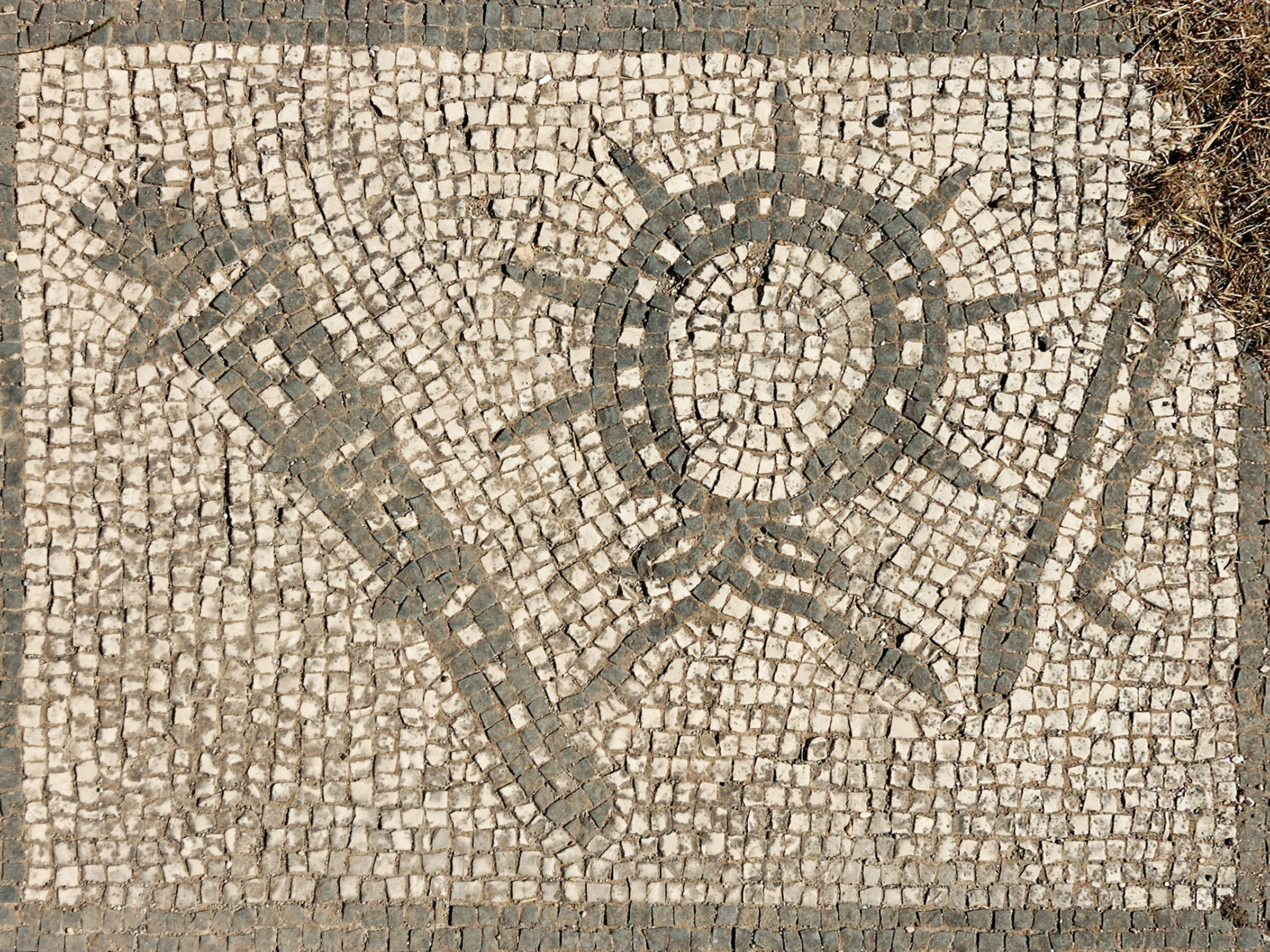 Mosaic with a torch, a crown and a whip, 2nd century AD. Mitreo di Felicissimus, Ostia Antica, Latium, Italy.